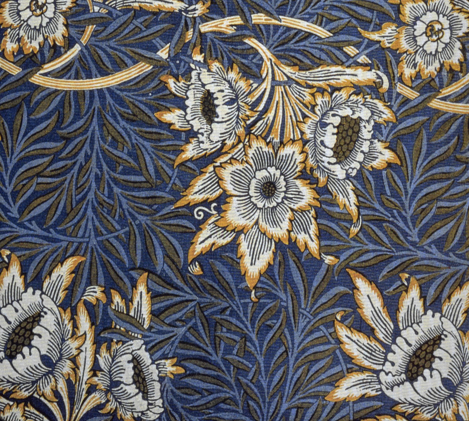 Tulip and Willow printed linen designed by William Morris. (Identification from Linda Parry: William Morris Textiles, New York, Viking Press, 1983, ISBN 0-670-77074-4, p. 147)